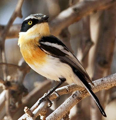 A female Pririt Batis in Klein Pella, Northern Cape, South Africa.